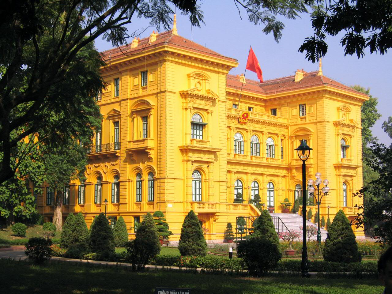 Presidential Palace in Hanoi